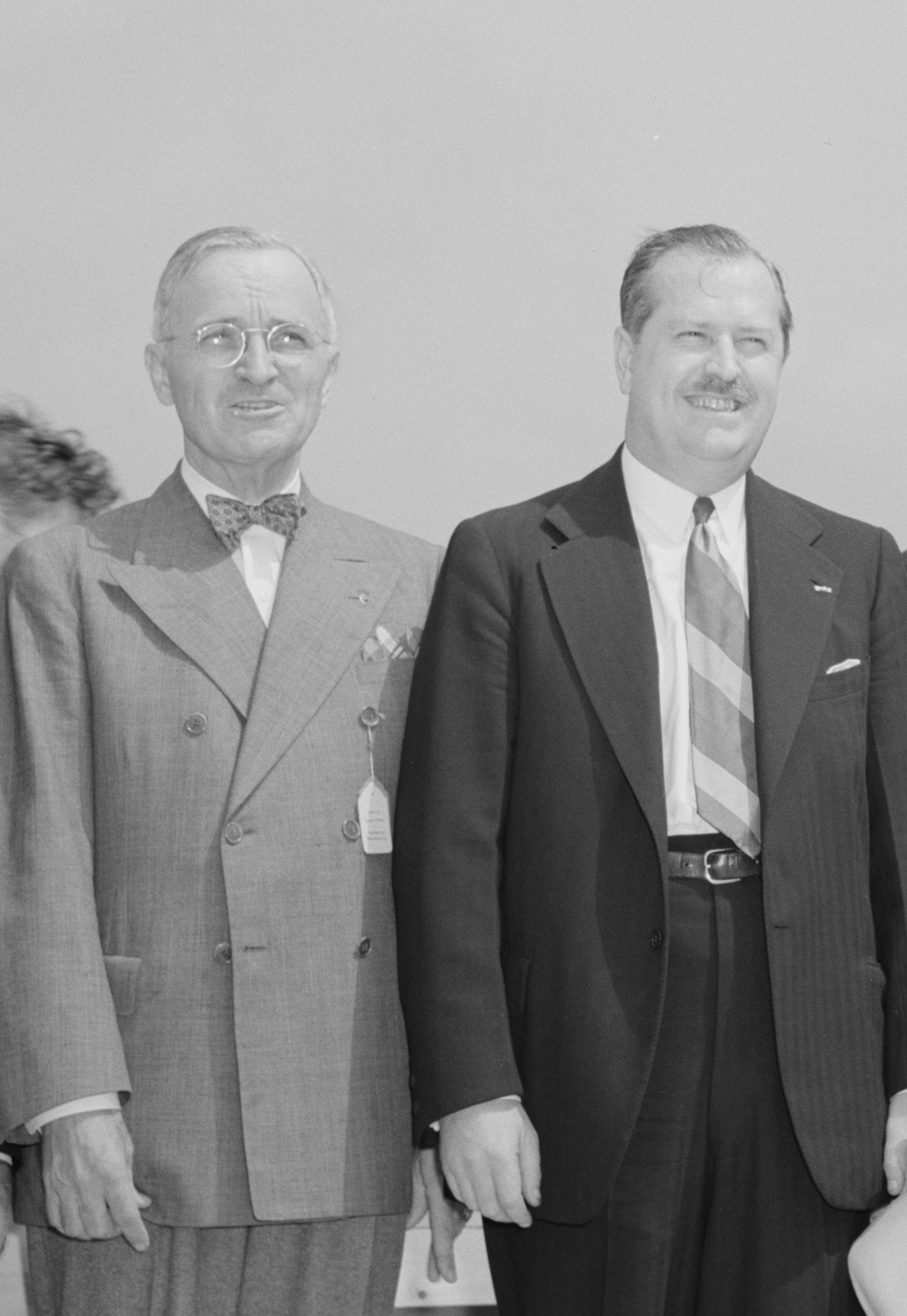 Sumner Sewall (right), Governor of Maine, with US Senator Harry S. Truman from Missouri